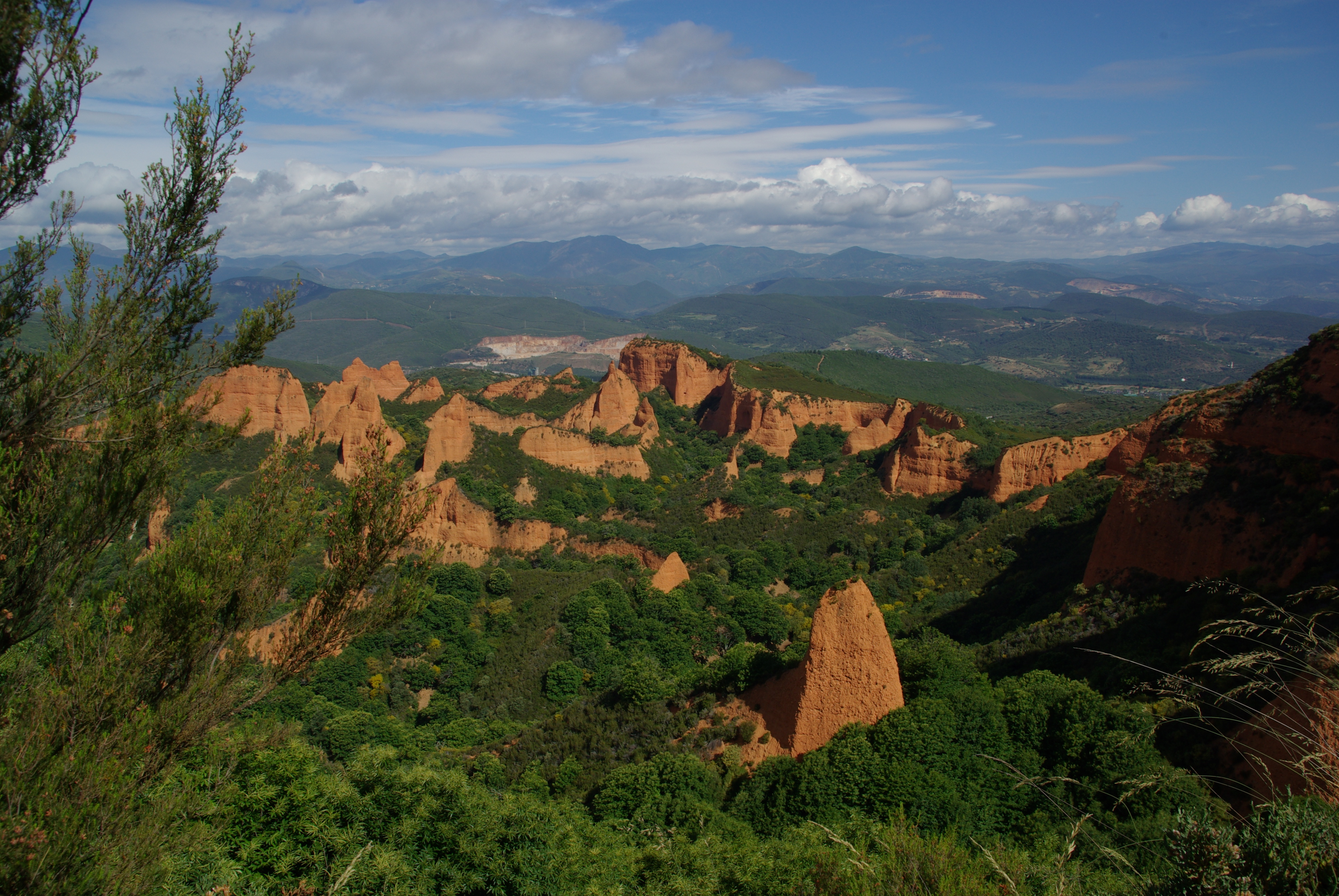 Las Médulas (Galician: As Médulas) is a historic mining site near the town of Ponferrada in the region of El Bierzo (province of León, Castile and León, Spain), which used to be the most important gold mine in the Roman Empire. Las Médulas Cultural Landscape is listed by the UNESCO as one of the World Heritage Sites. Advanced aerial surveys conducted in 2014 using LIDAR have confirmed the wide extent of the Roman-era works.